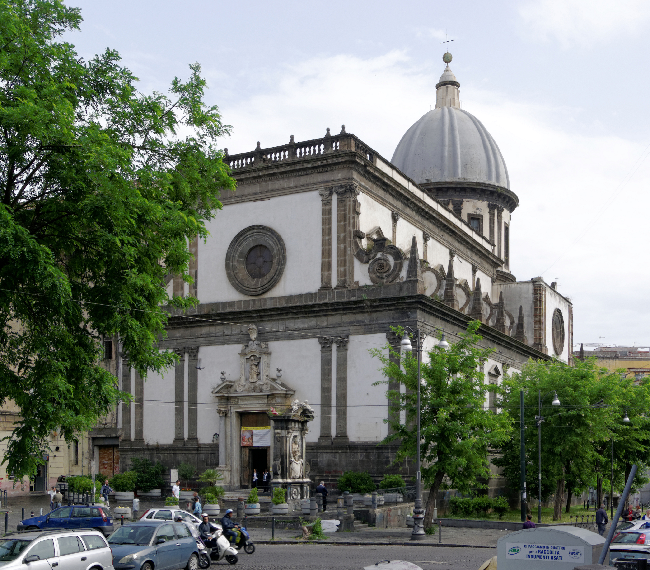 Naples, Santa Caterina al Formiello